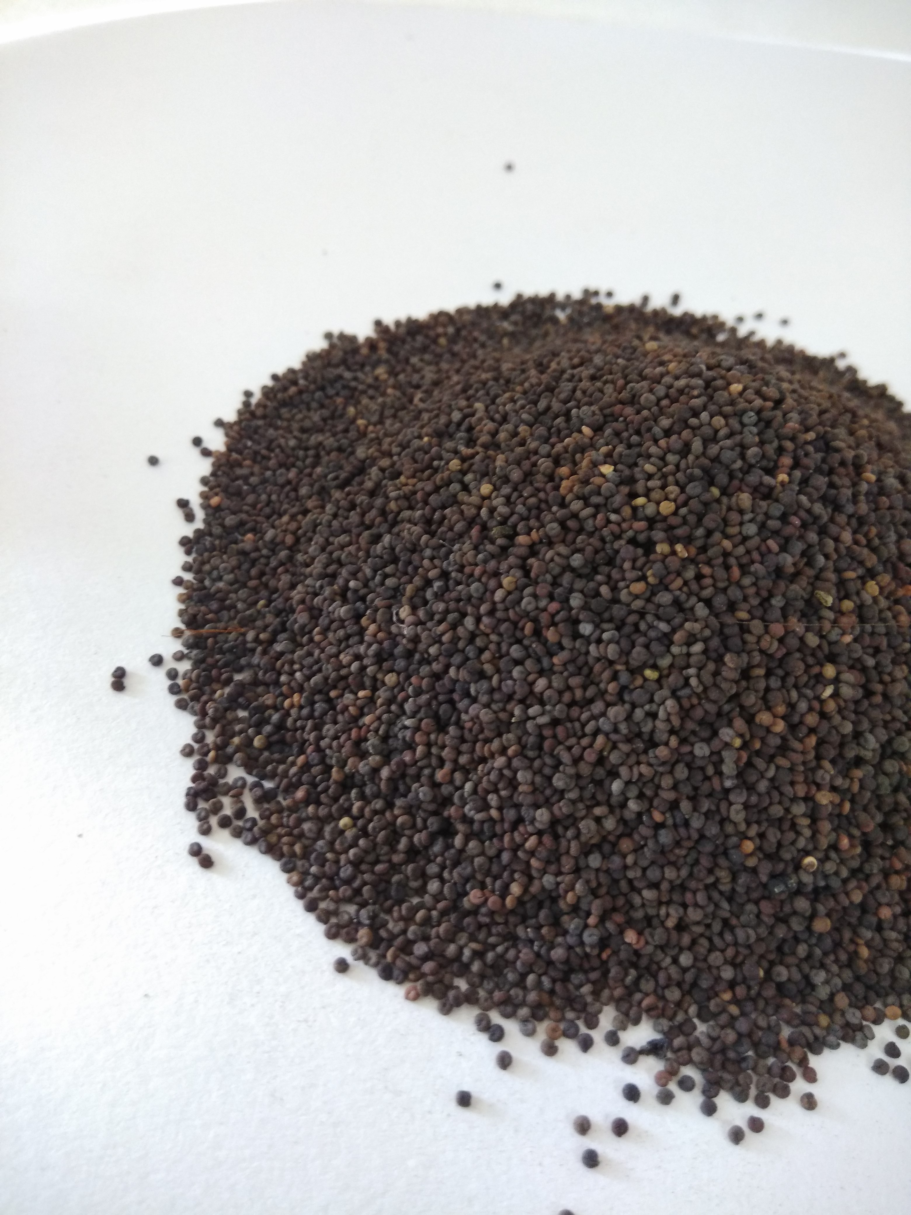 A heap of raw uncooked Jakhya on a white surface and background.